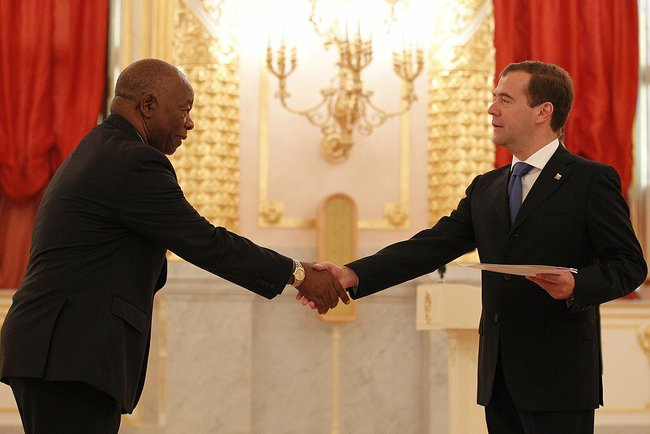 Ambassador of the Republic of Zimbabwe Bonifes Guva Britto Chidyausiku presents his letter of credence.